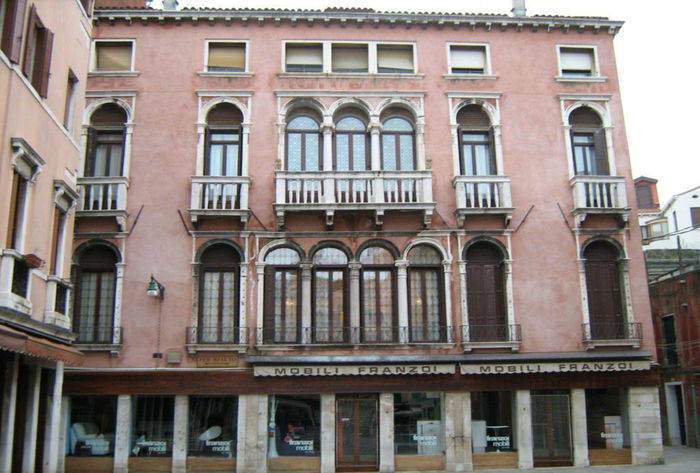 Palace Loredan a Santa Marina